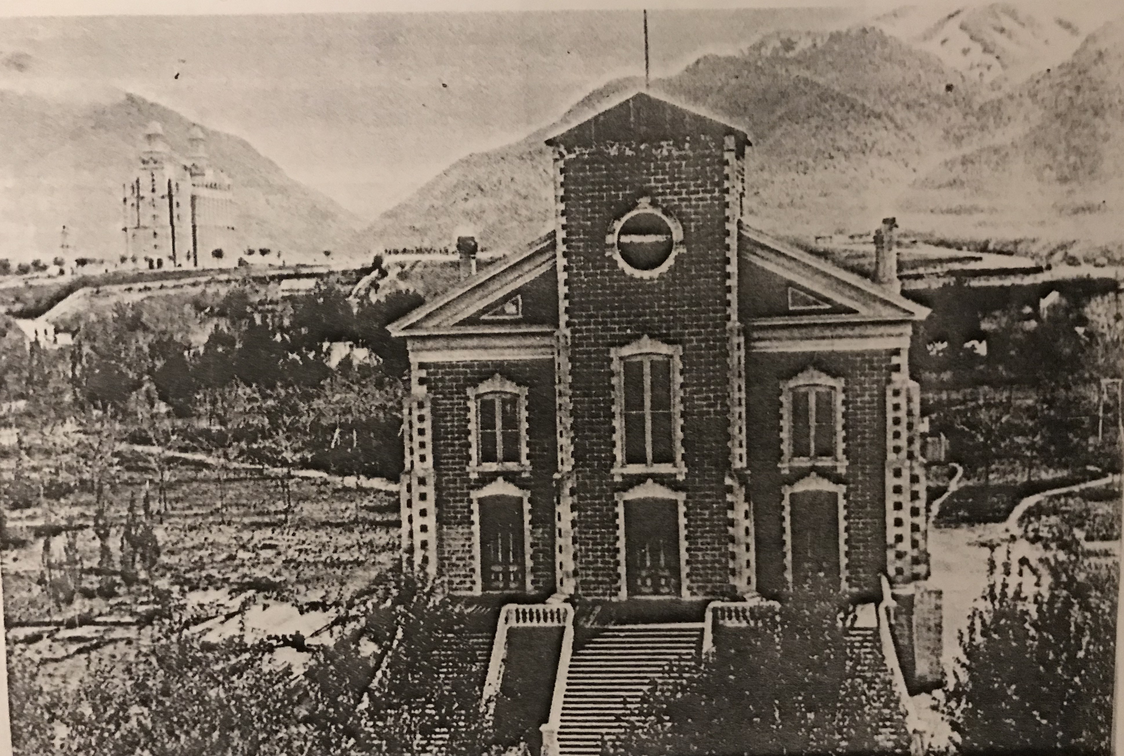 East view